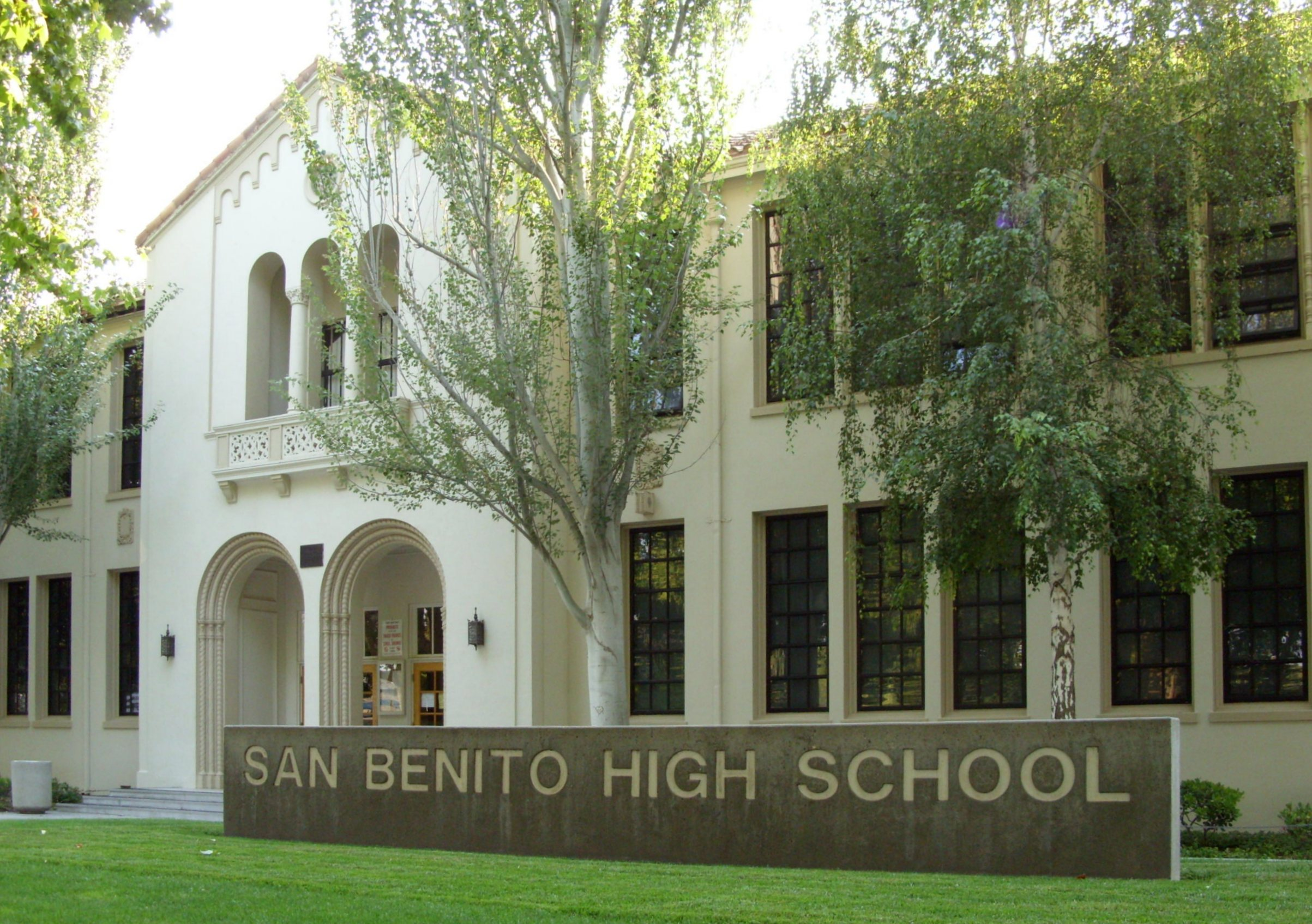 The main entrance to San Benito High School's central building, Hollister, California.